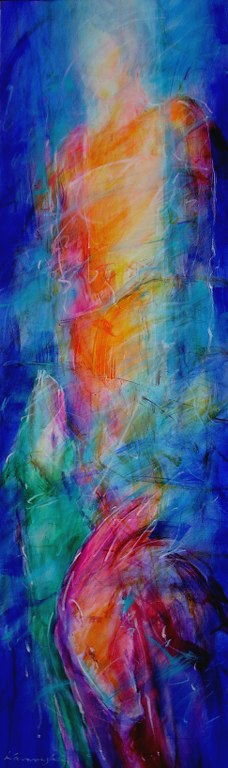 Walking the dogs painting by Antoni Karwowski.